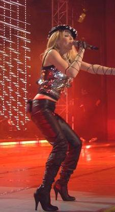 Kylie @ Hammersmith Apollo